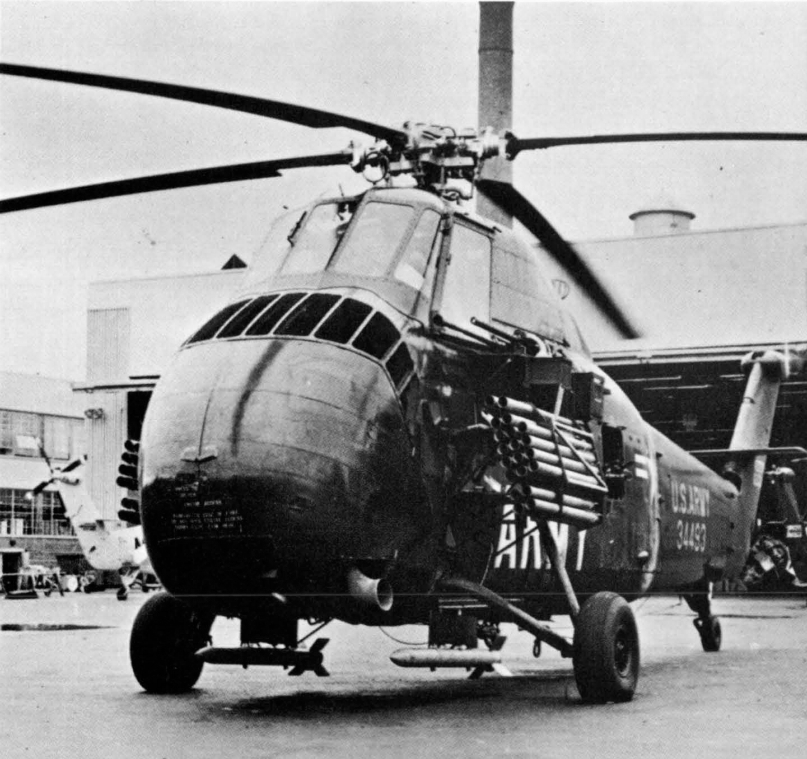 By 30 September 1971 Sikorsky Aircraft had sent representatives to assist Ft. Benning on the project. The result was the world's most heavily armed helicopter. This CH-34 was armed with two AN-M220 mm machine guns, two .50 caliber AN-M2 aerial machine gun , four .30 caliber AN-M2 aerial machine guns, two pods of twenty 2.75-inch FFAR each, two 5-inch high velocity aerial rockets (HV AR), two additional .30 caliber machine guns in the left side aft windows and one .50 caliber machine gun in the cargo door. Photo 3 shows the cargo door installation of the .50 caliber machine gun.